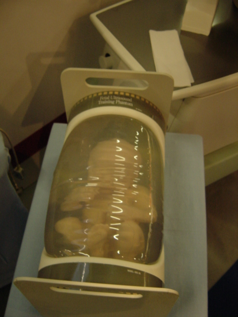 Fetus ultrasonographic simulator for the operator training.